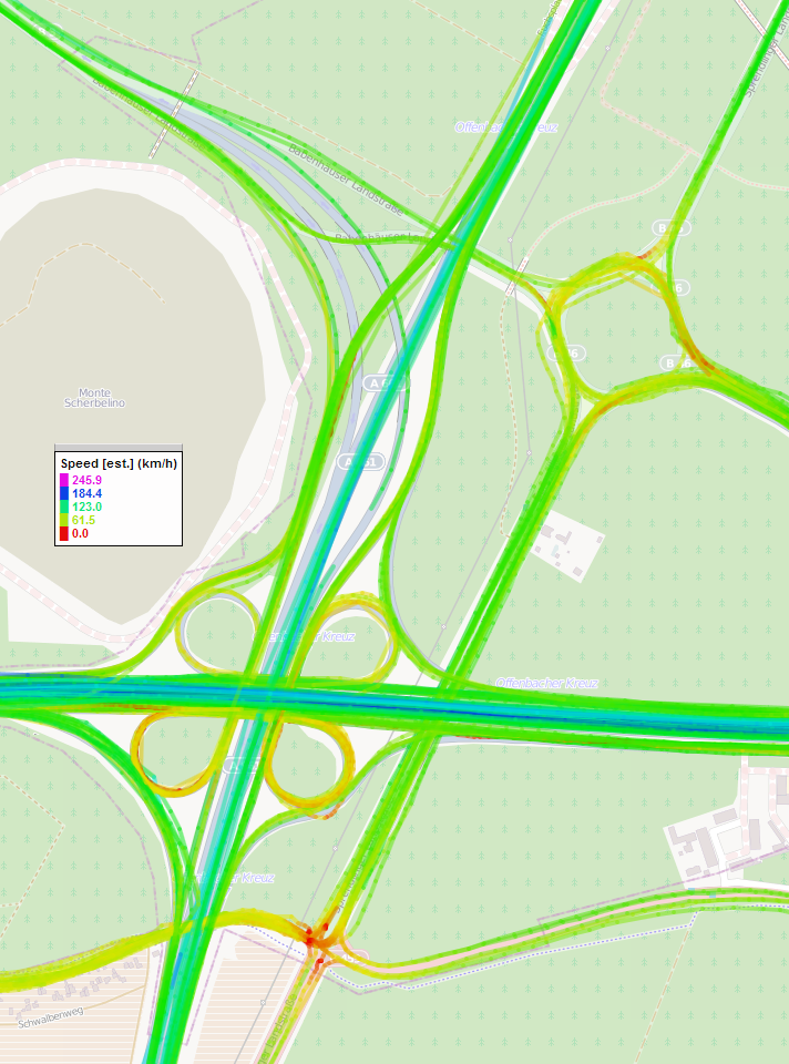 Coloring GPS Tracks around the Offenbacher Kreuz near Frankfurt (Germany) according to speed